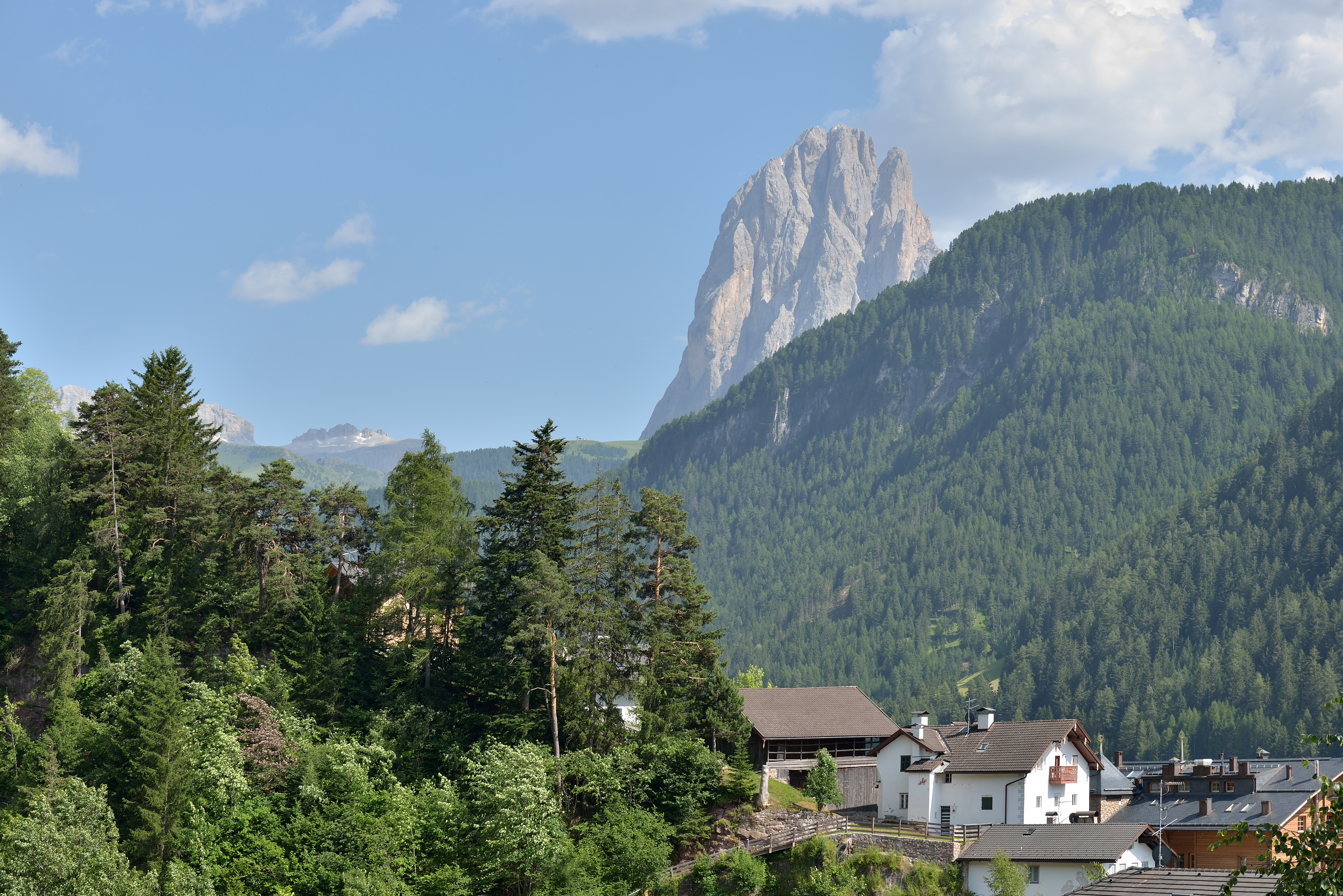 The former farmhouse Plajes in Urtijëi - South Tyrol.